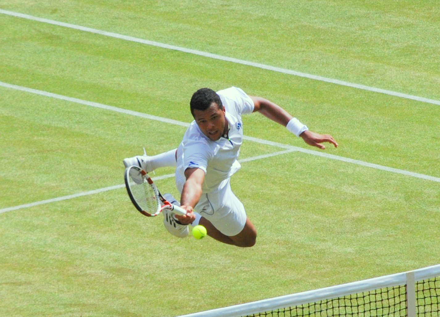 Jo-Wilfried Tsonga during his semi-final with Novak Djokovic . Djokovic won this 7-6, 6-2, 6-7, 6-3. Day 11 of Wimbledon 2011.